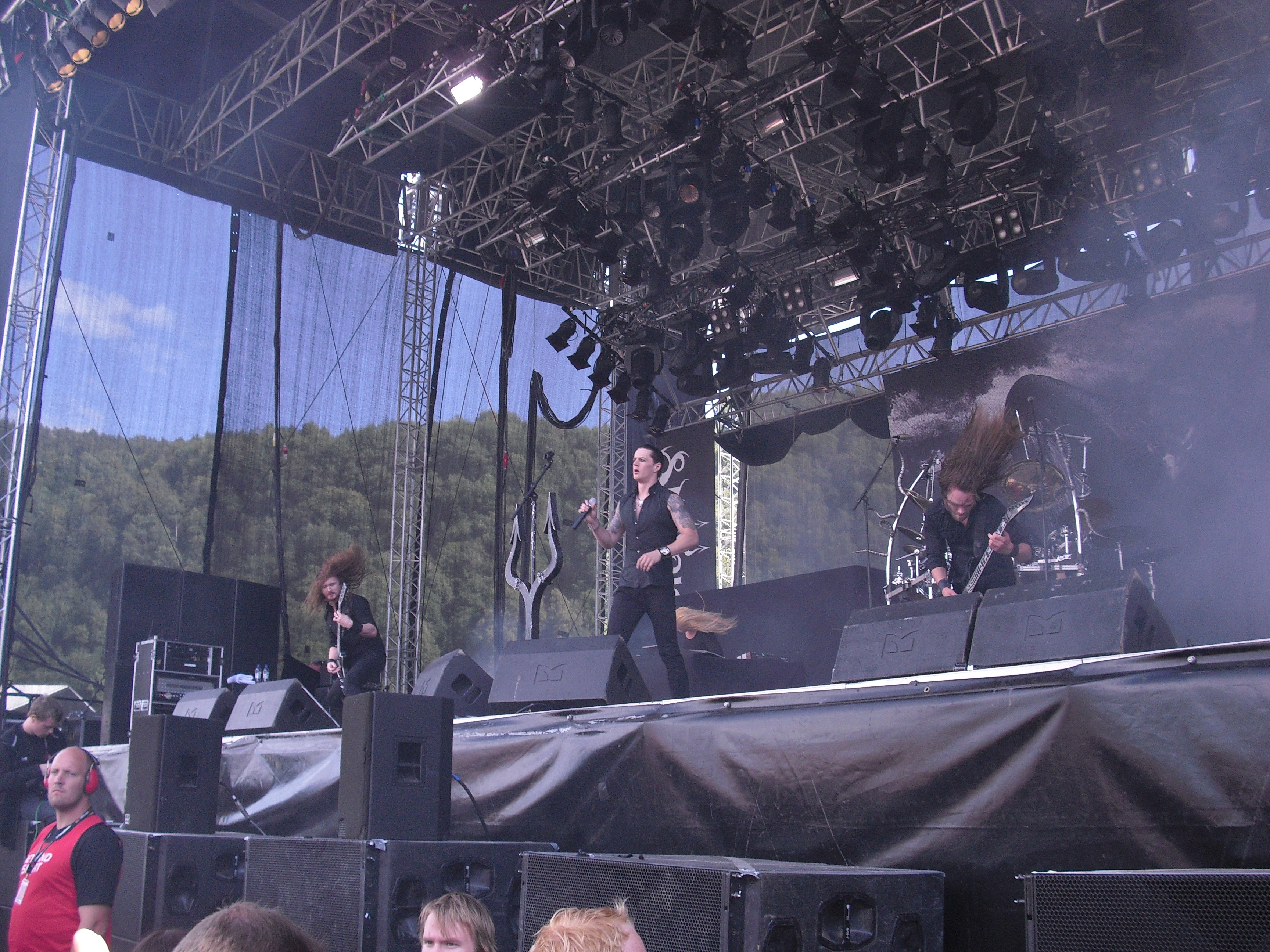 Satyricon live at Norway Rock Festival 2009